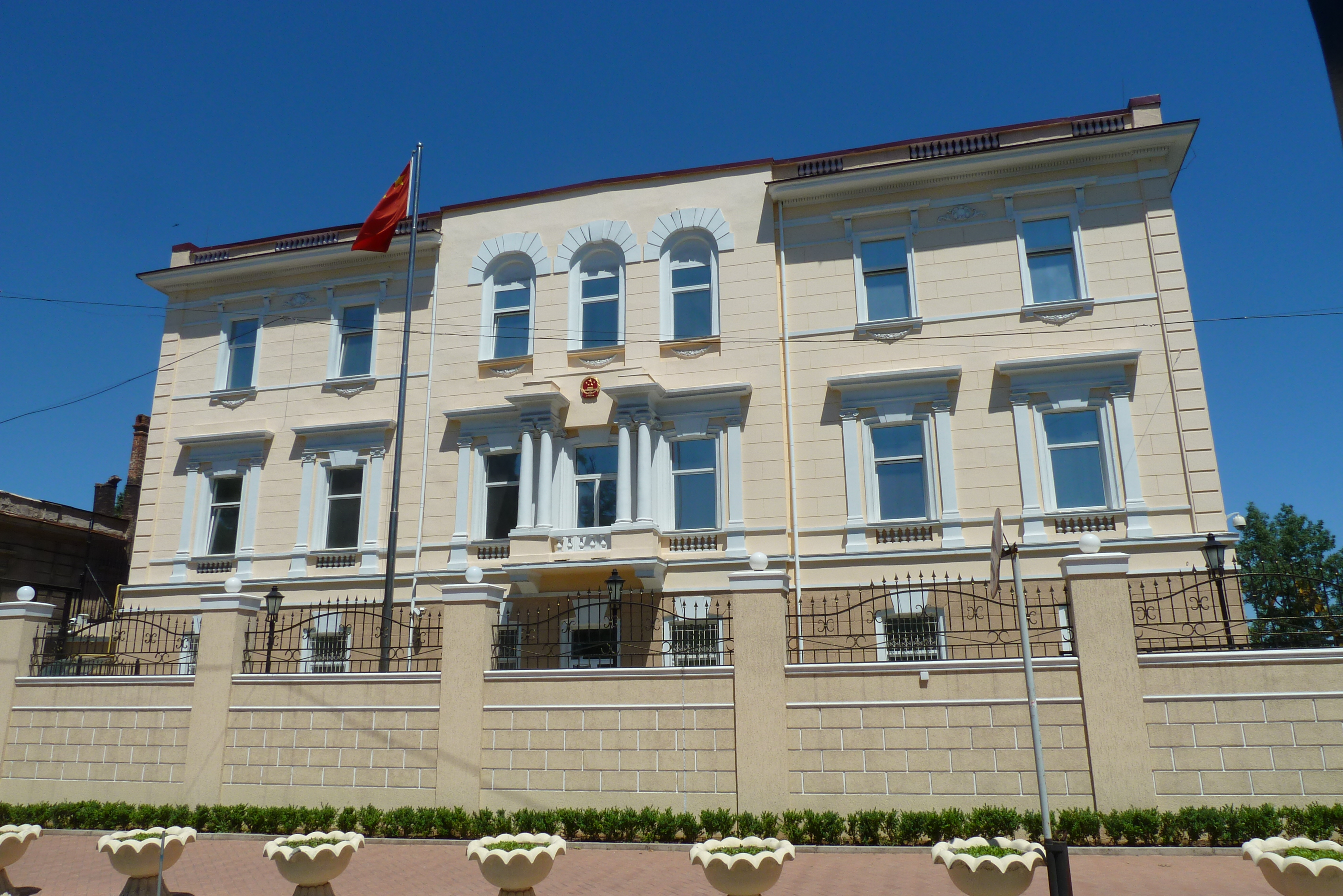 Chinese consulate in at Lane Nakhimova 2 in Odessa, Ukraine